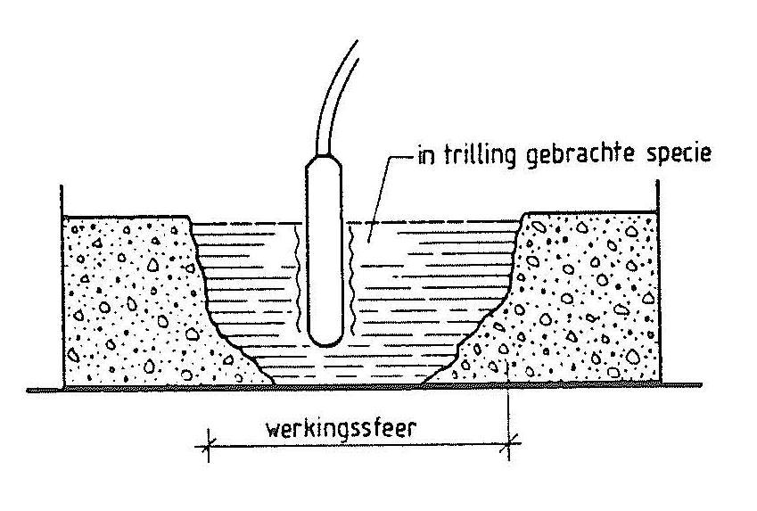 Werkingssfeer trilnaald